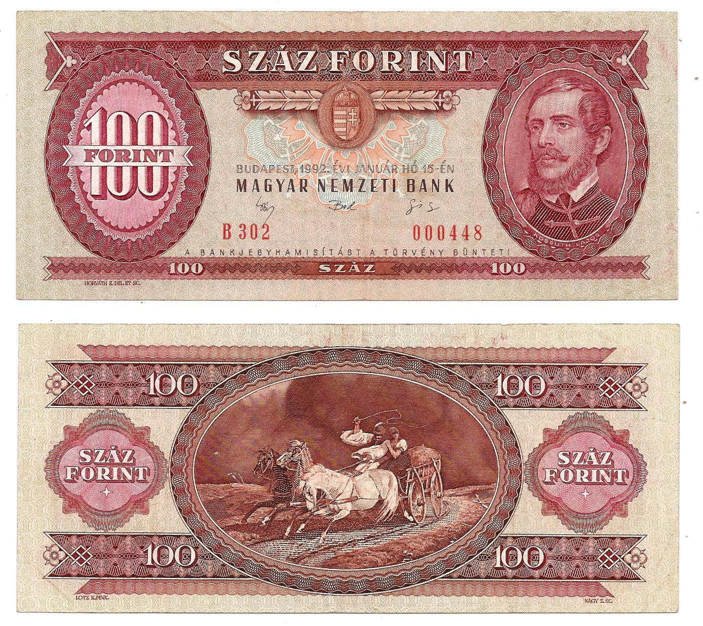 Kossuth, Lajos, Lawyer, 1802 Monok, Hungary – 1894 Turin, Italy and Lotz Károly Antal Pál, or Karl Anton Paul Lotz, Painter, 1833 Bad Homburg vor der Höhe, Germany – 1904 Budapest 100 Forint bank note, Budapest 15 January 1992. Portrait at r. / Horse drawn wagon l. by Károly Lotz. Pick 174a. Condition: ALMOST UNCIRCULATED.